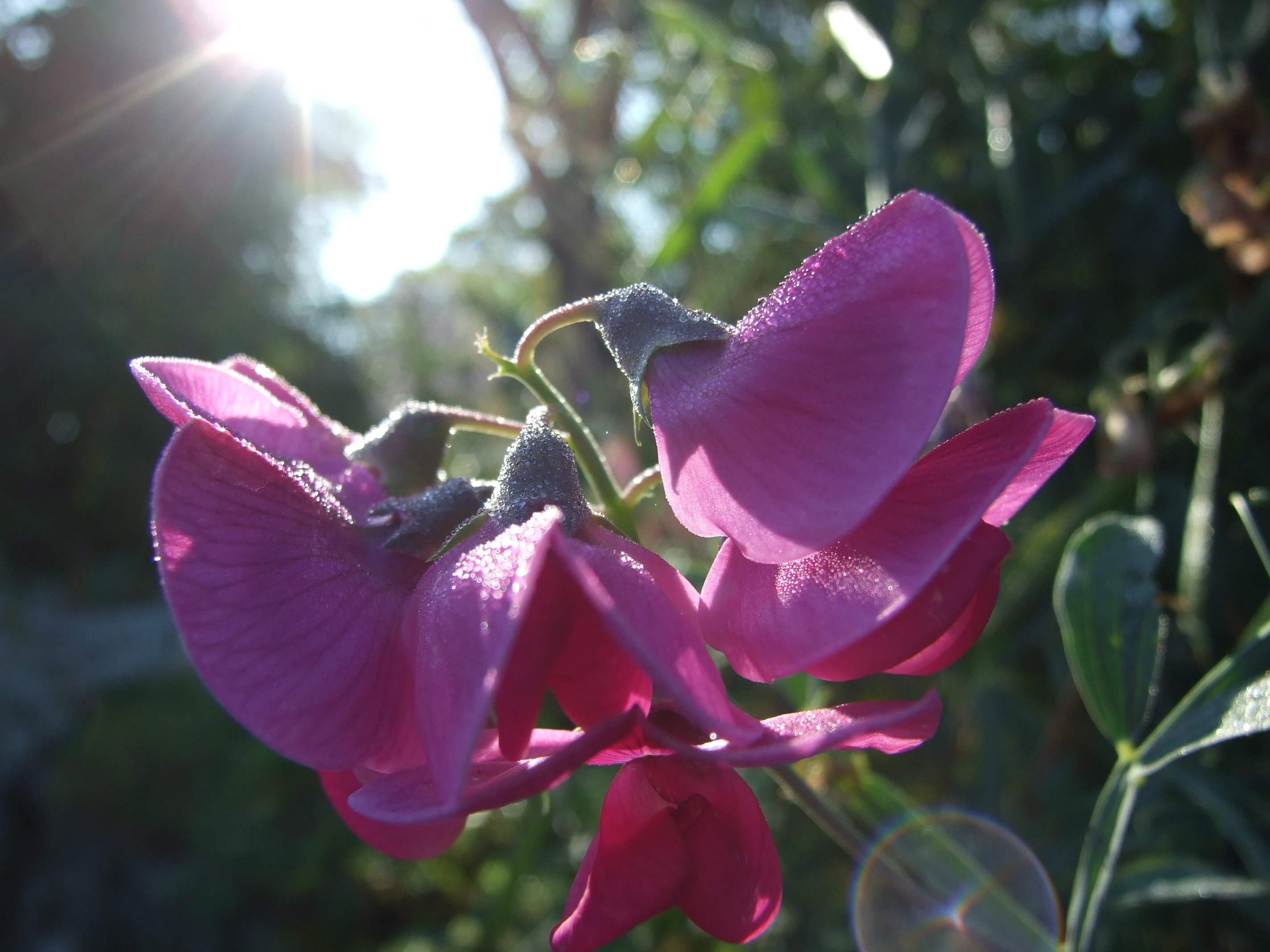 Nature near Vojníkov village, South Bohemian Region, CZhelp